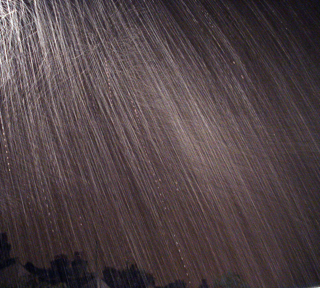 Heavy rain